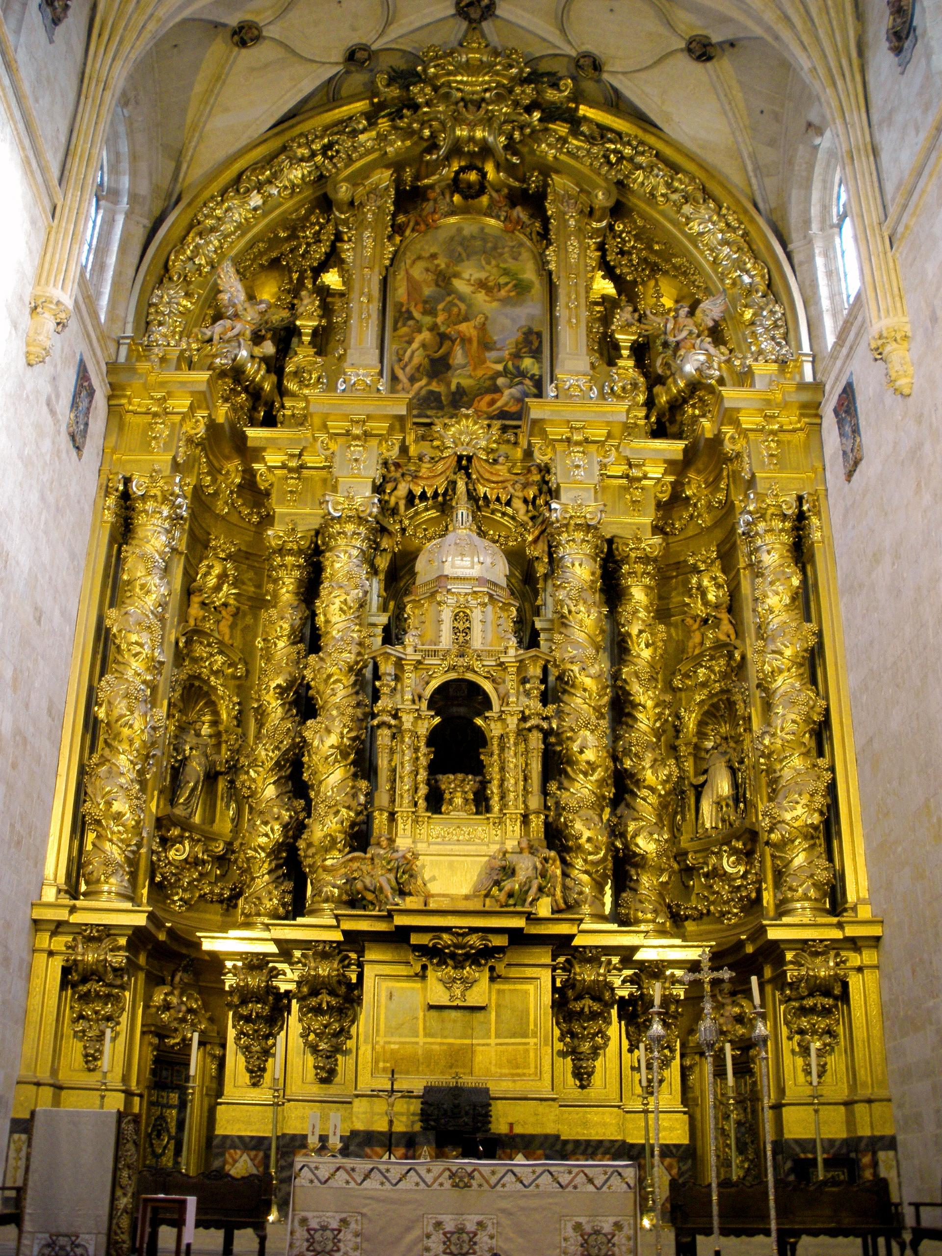 Retablo Mayor del Convento de San Esteban de Salamanca (España), obra de José de Churriguera (1692). Prototipo de los retablos barrocos churriguerescos del arte español e hispano-americano de las primeras décadas del siglo XVIII.